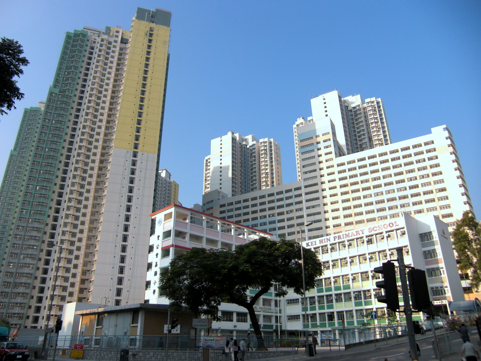 Looking towards the north from Ngau Tau Kok Road. Upper Ngau Tau Kok is seen.